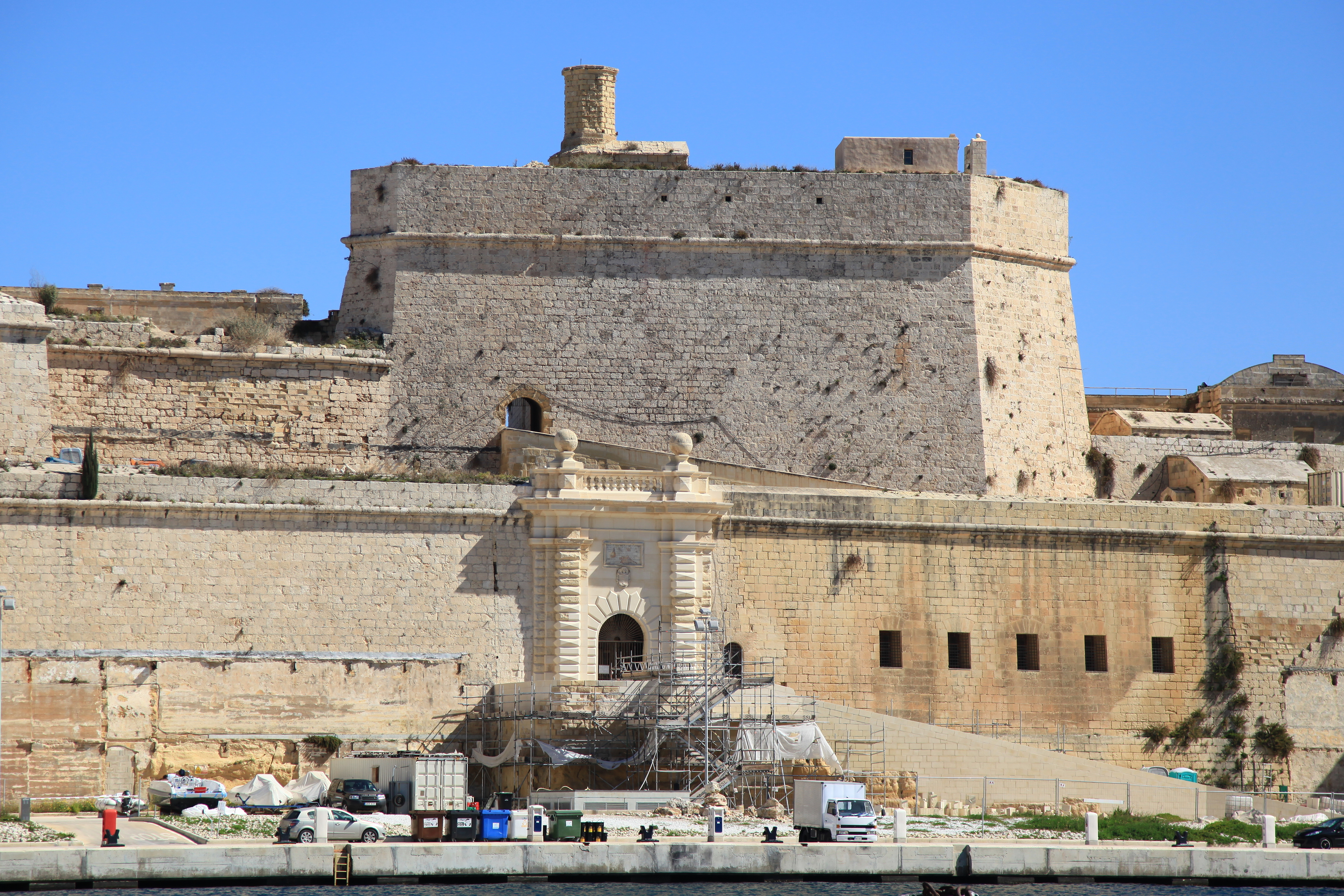 View from a Malta sightseeing two harbours cruise boat to Fort St. Angelo, Ix-Xatt tal-Birgu in Birgu, Malta